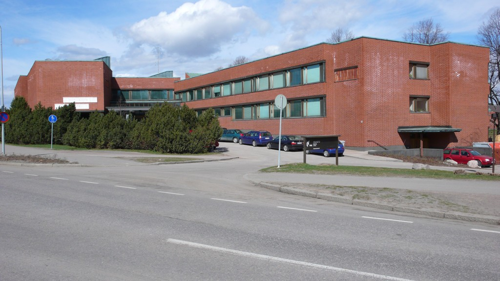 TKK Library in August 2008.